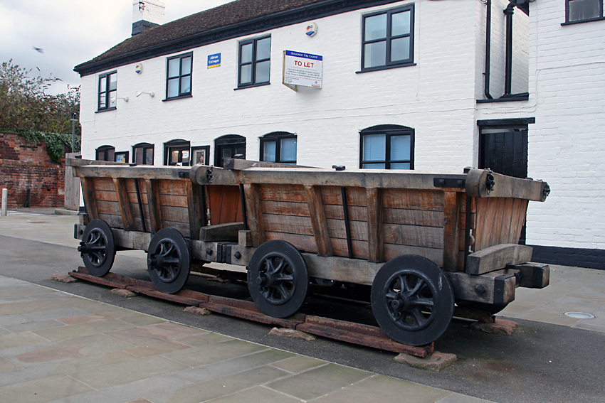 Replica plateway wagons at Gloucester Docks on a section of original track